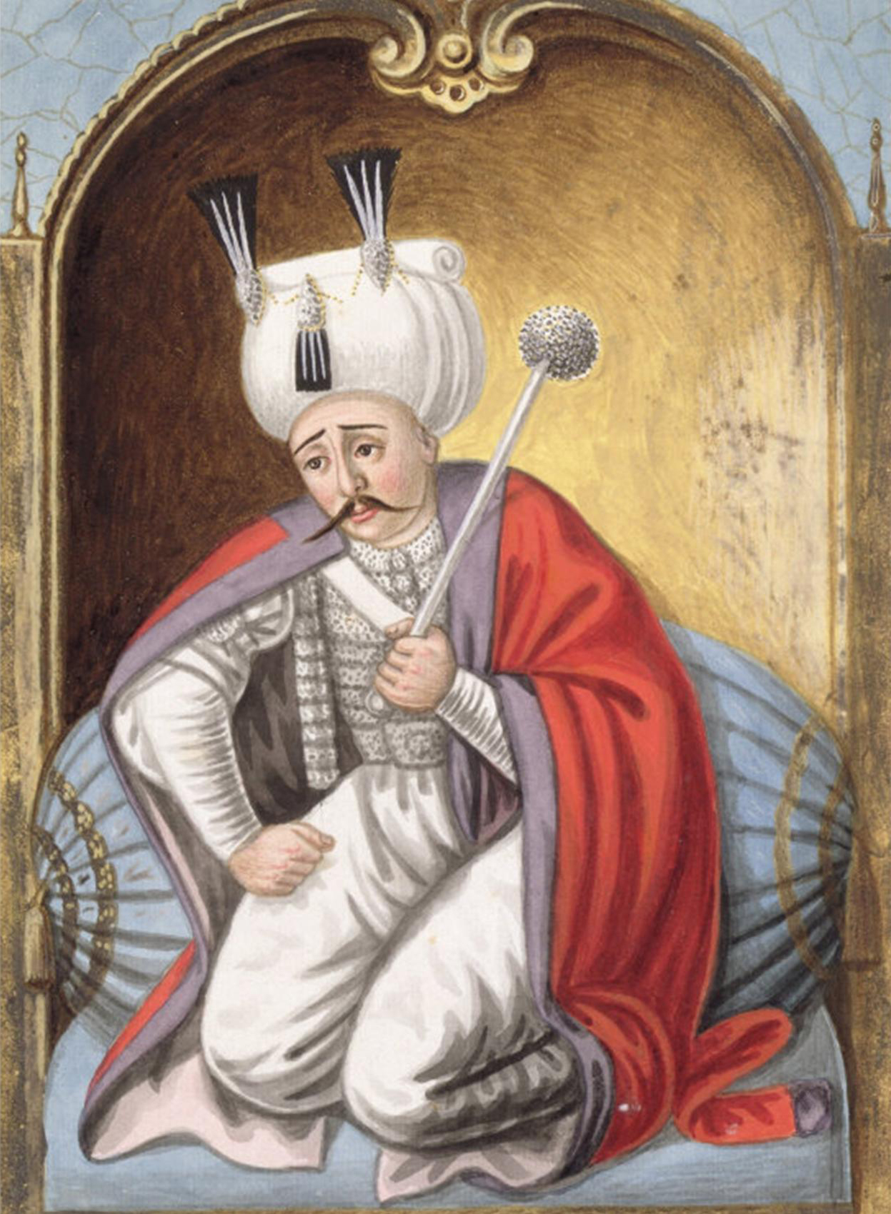 Portrait of Selim I, Sultan of the Ottoman Empire (1512-1520). The portrait has been printed using the Giclée process.